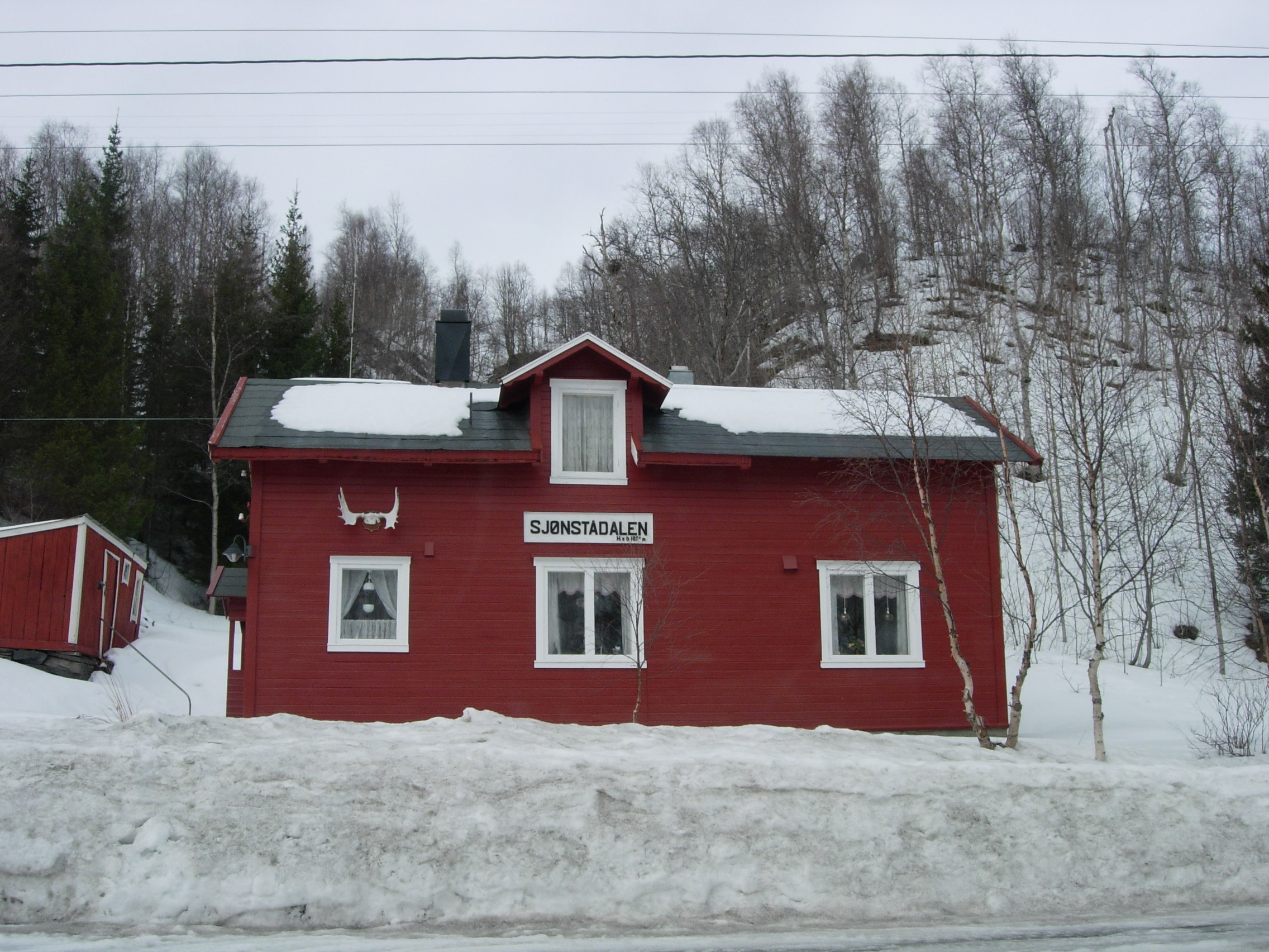 Sjønstådalen halt on the closed Sulitjelmabanen